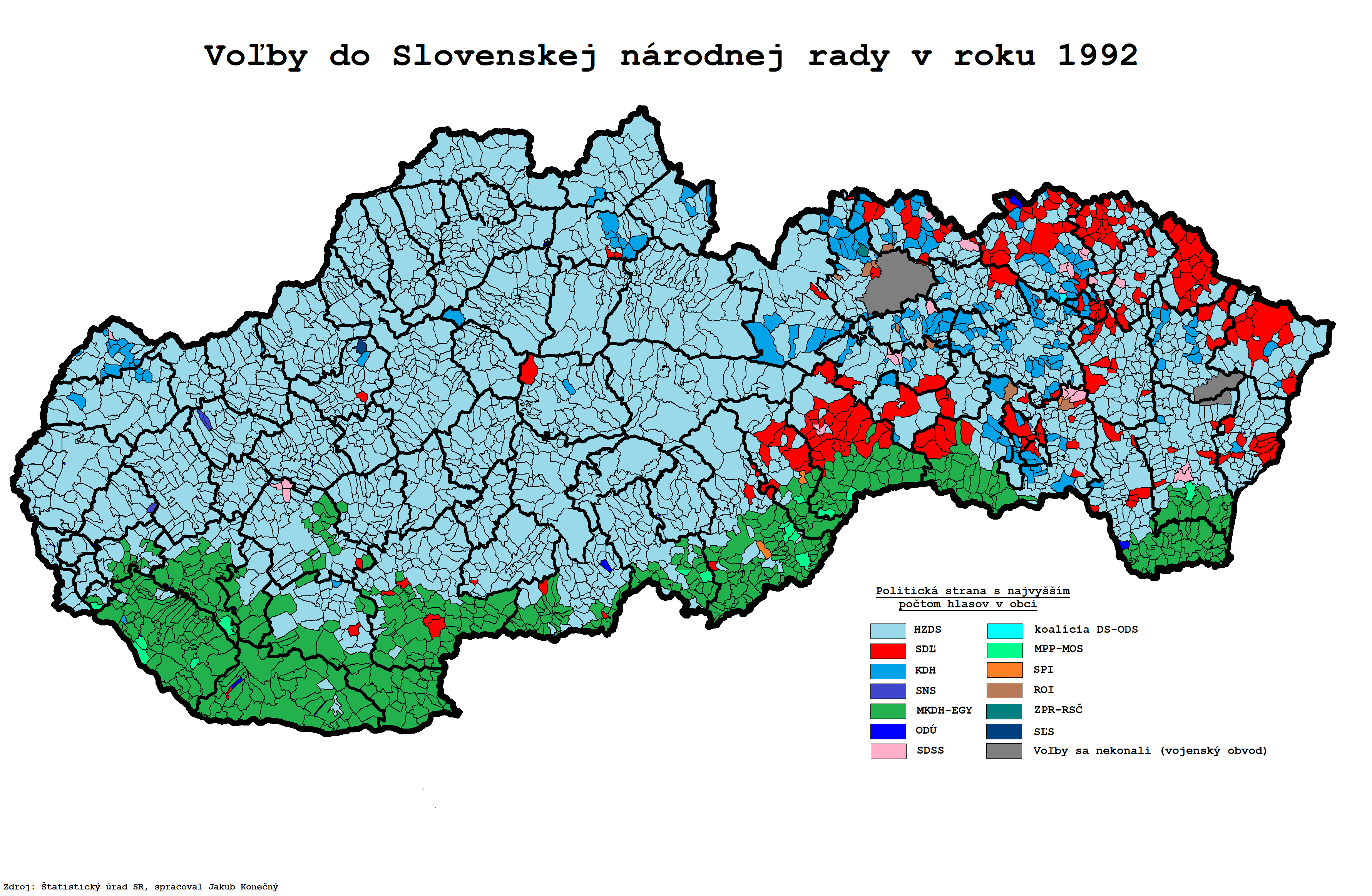 The results of the election for the Slovak National Council in 1992 at the municipalities level. The municipalities are coloured with the colour of winning party (with most votes). When tie, both parties are included.